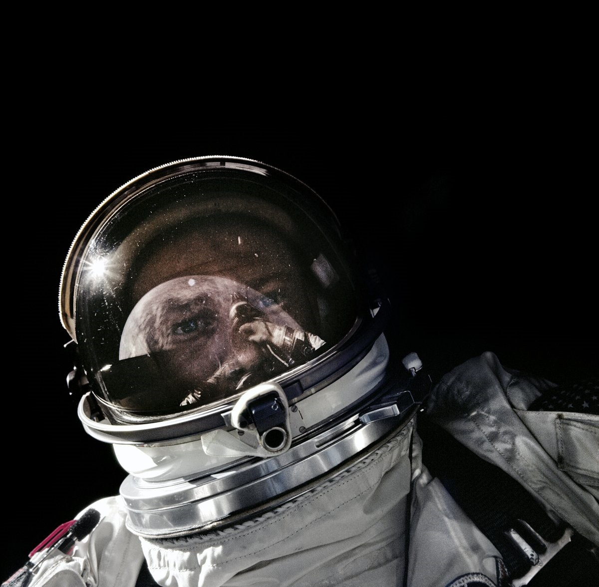 Photograph of Major Edwin E. Aldrins helmet taken during the Gemini XII mission during orbit no. 14 on November 12,1966. Original magazine number was GEM12-17-62922. Film type was Kodak Ektachrome MS (S.O. -368). A black and white Master of this image exists. Its photo number is S66-62852.